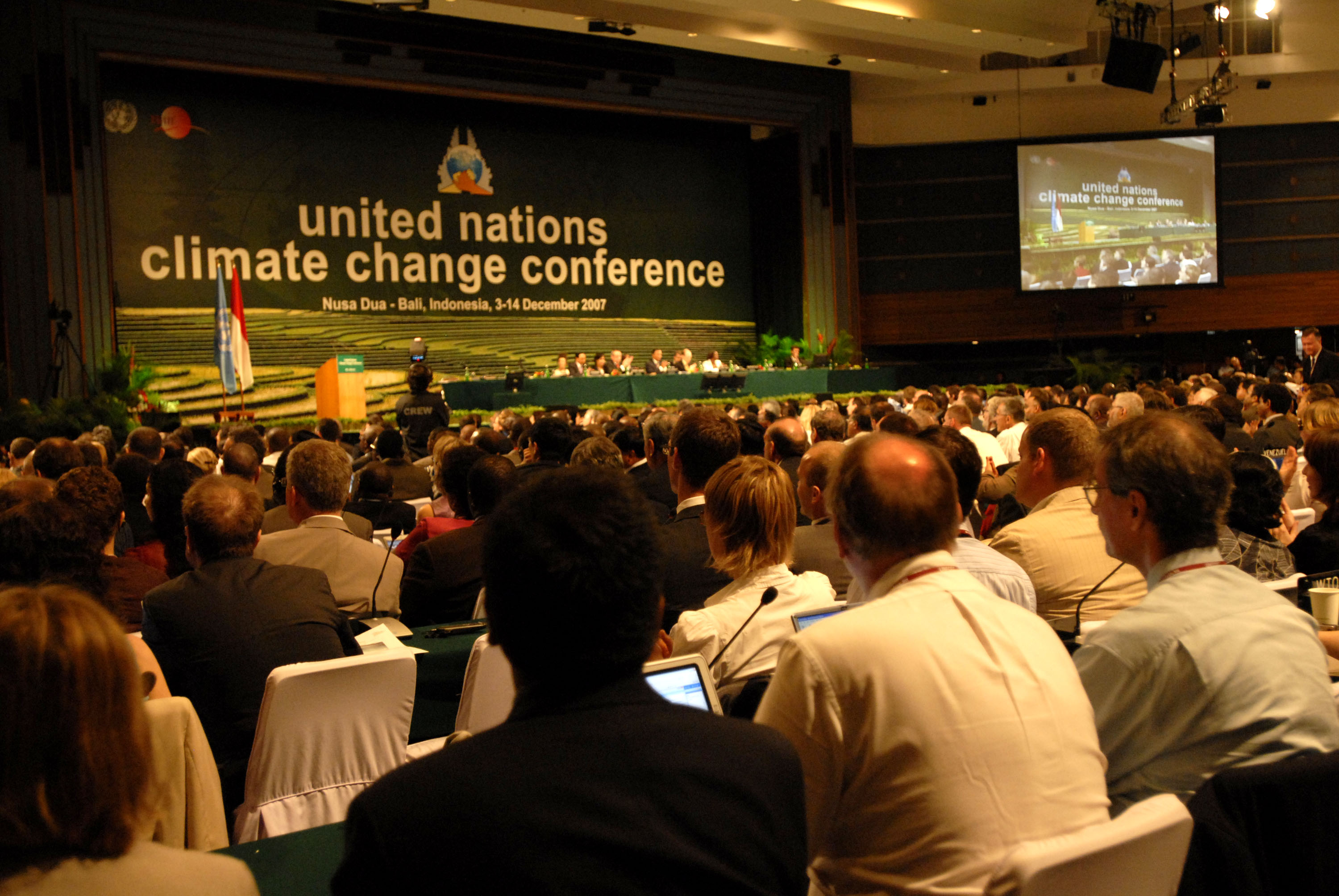 The United Nations Climate Change Conference opened on December 3, 2007, in Bali Indonesia. Oxfam is there to make sure that poor people's interests are at the heart of of the negoations that will take place at the conference. Photo Ng Swan Ti/Oxfam